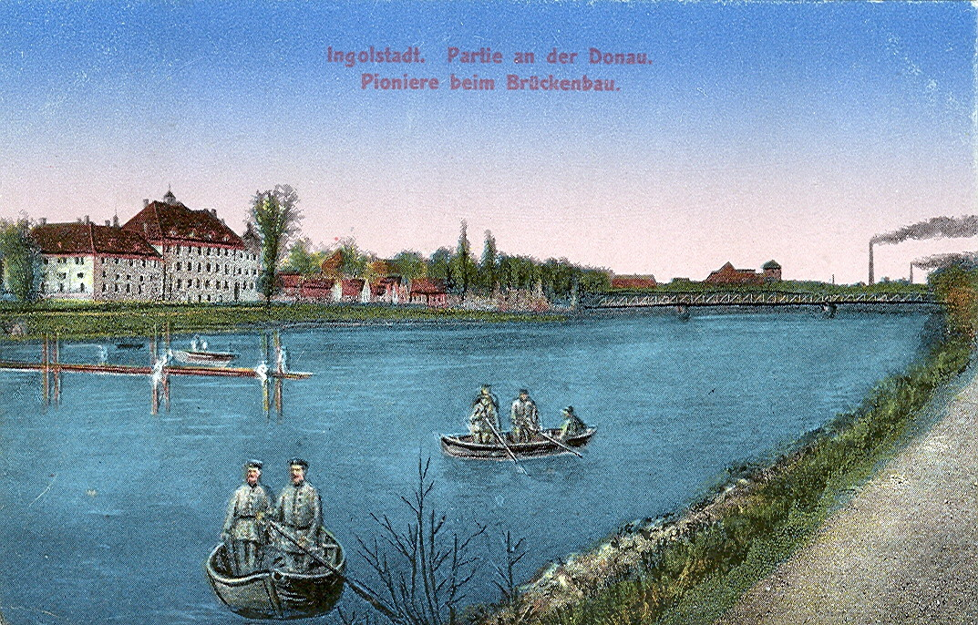 Ingolstadt, view on the left banks of the Danube River with the Königliche Realschule (today Christoph-Scheiner-Gymnasium). In the foreground sappers are building a temporary brigde.